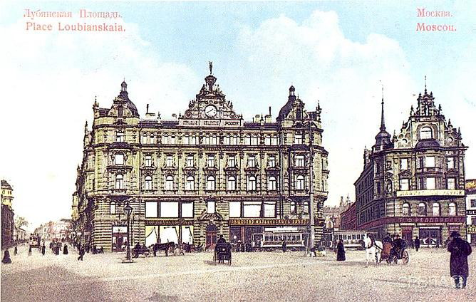 Lubyanka Square house insurance company "Rossiya"